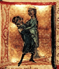 Summary 13th-century Italian manuscript miniature of Jaufre Rudel dying in the arms of Hodierna of Tripoli, Bibliotheque Nationale Française, Manuscrits Français 854, fol. 121 22:18, 8 April 2006 Silverwhistle 229x265 (38207 bytes) (14th-century Italian manuscript miniature of Jaufre Rudel dying in the arms of Hodierna of Tripoli, Bibliotheque Nationale Française, Manuscrits Français 854, fol. 121 )